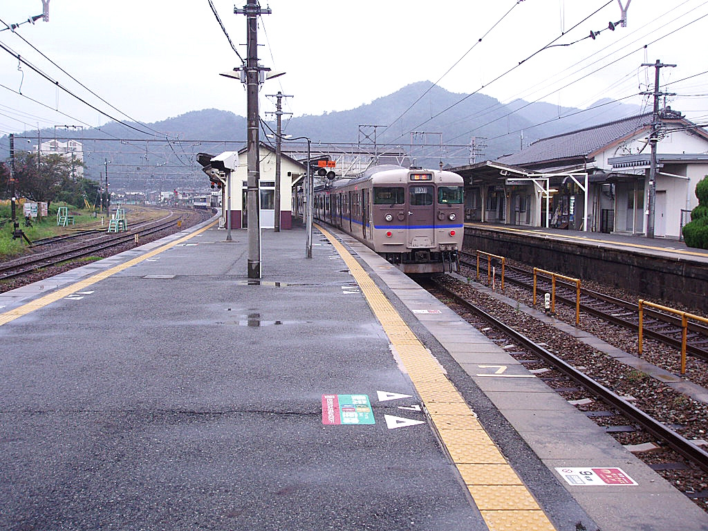 West Japan Railway Sanyo Main Line Kamigori Station西日本旅客鉄道上郡駅駅舎